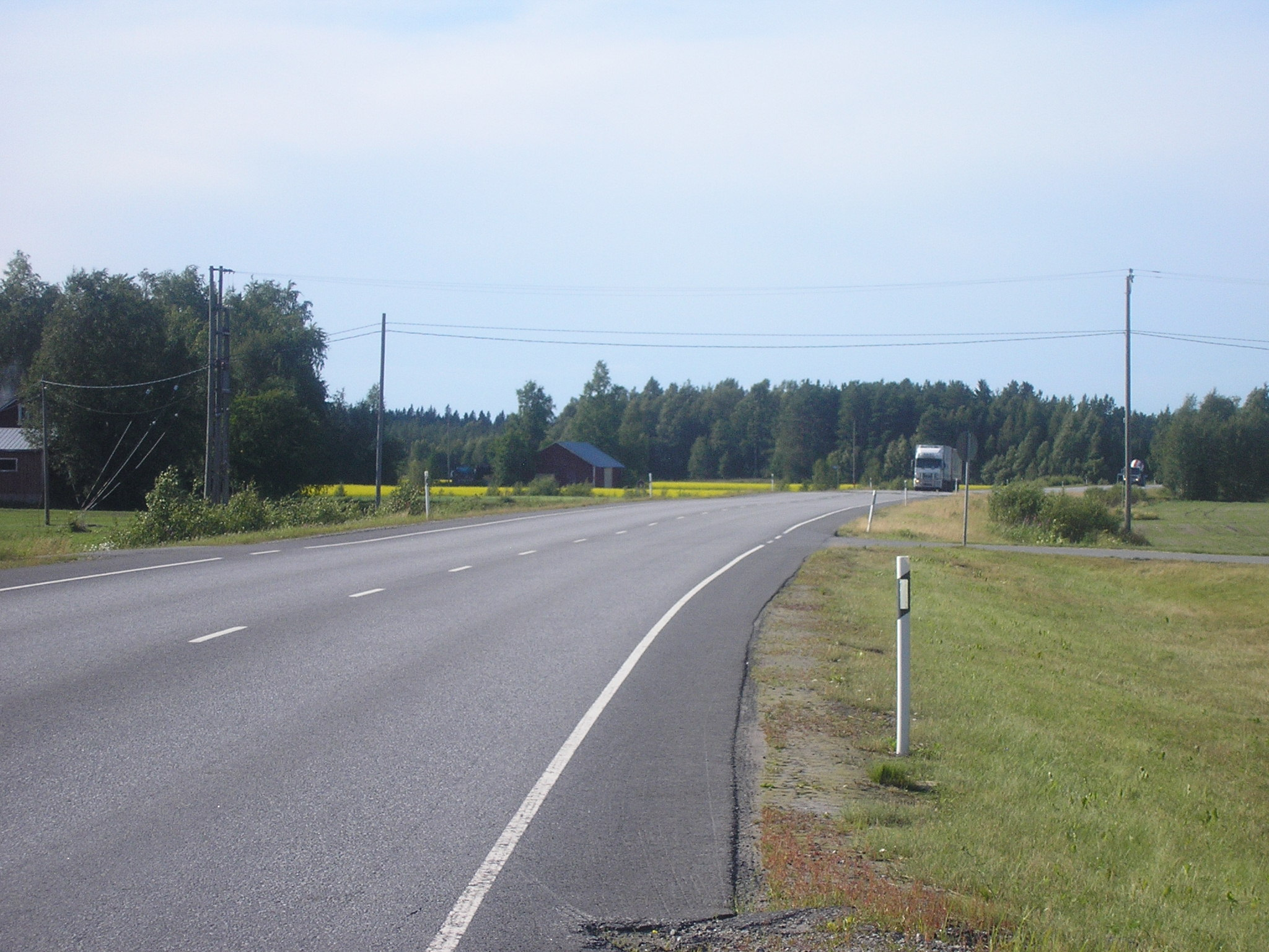 1st class main road 19 in Nykarleby, Finland.